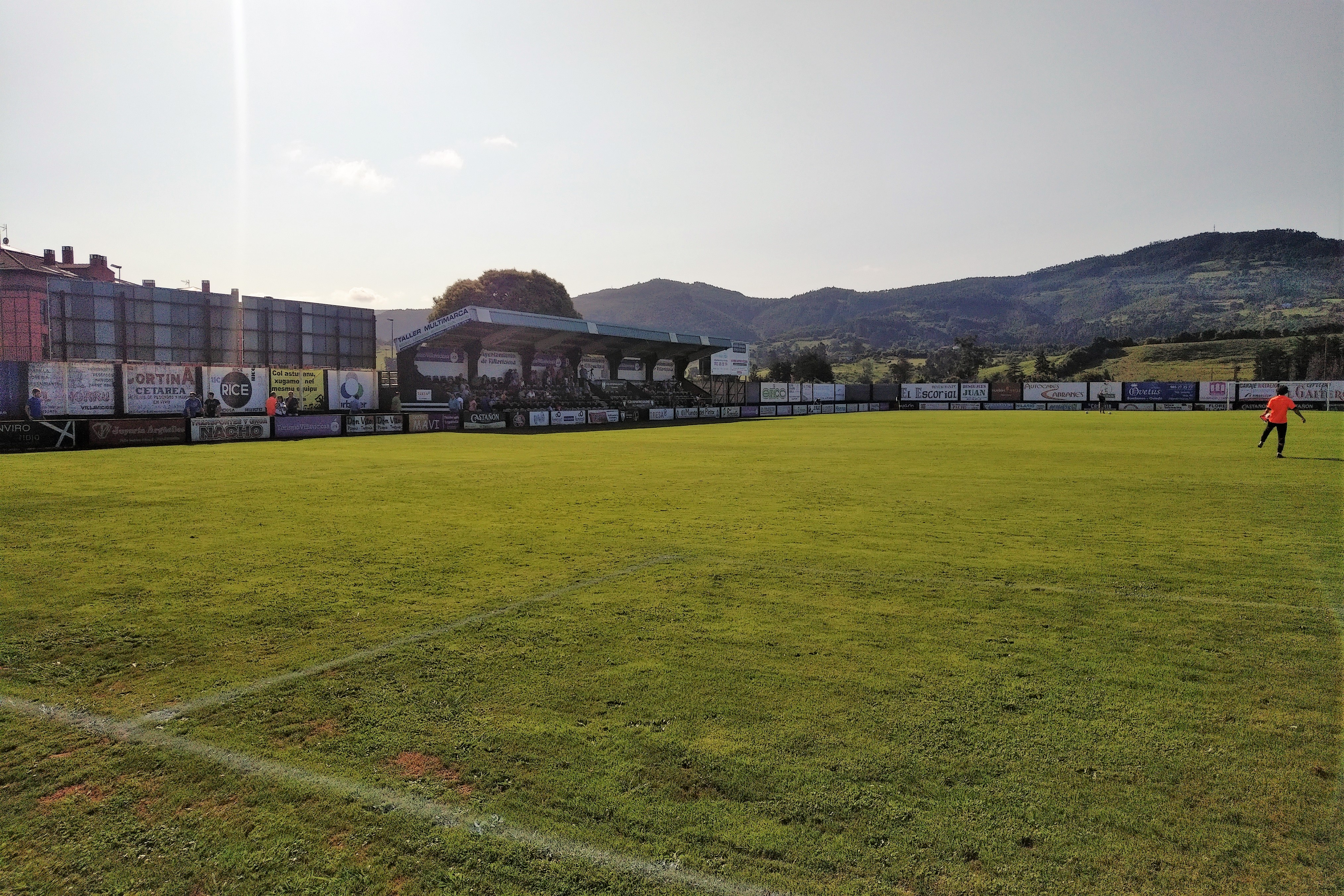 Les Caleyes stadium, in Villaviciosa, Asturias, Spain.